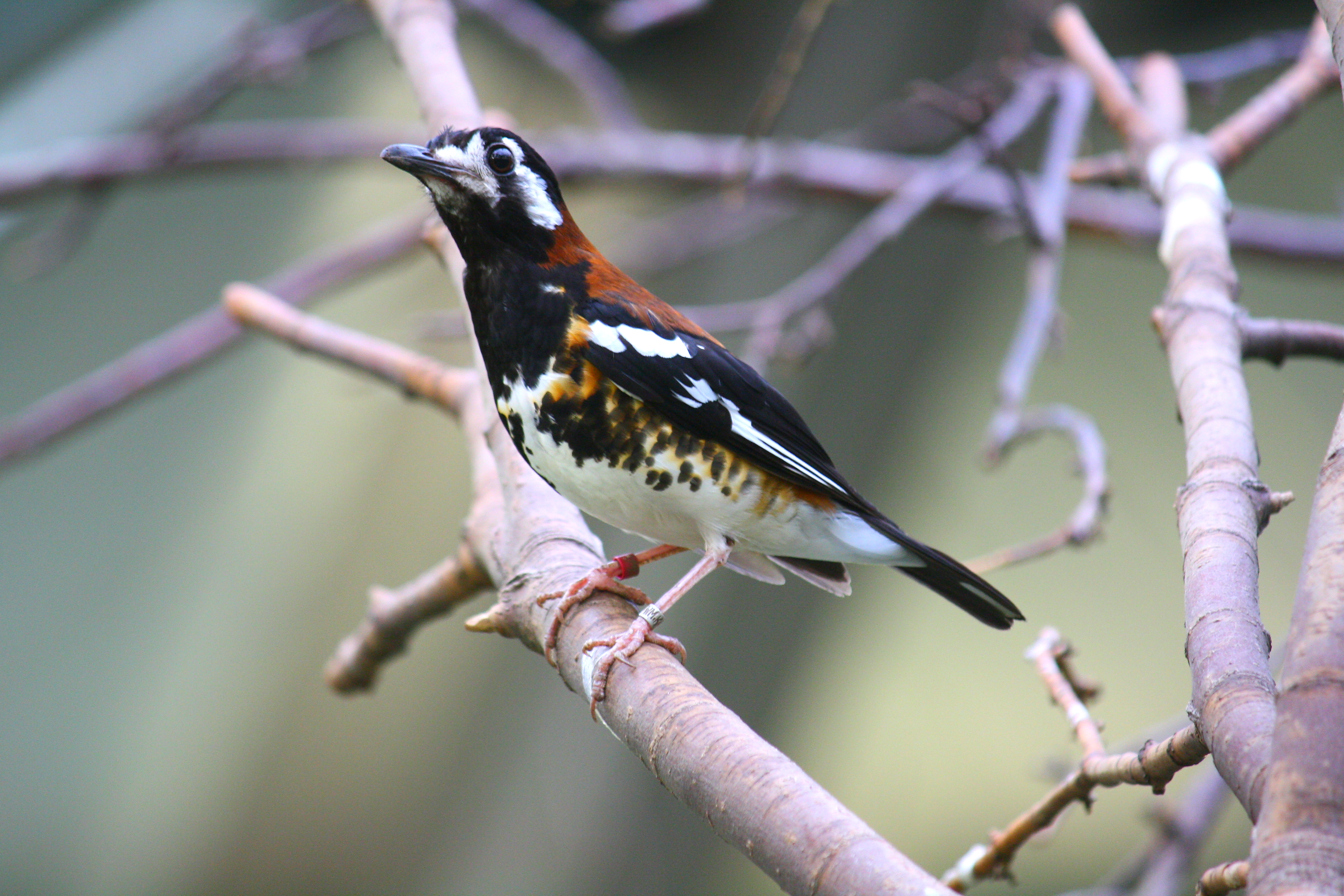 Chestnut-backed Thrush (Geokichla dohertyi) in Edinburgh Zoo, Edinburgh, Scotland